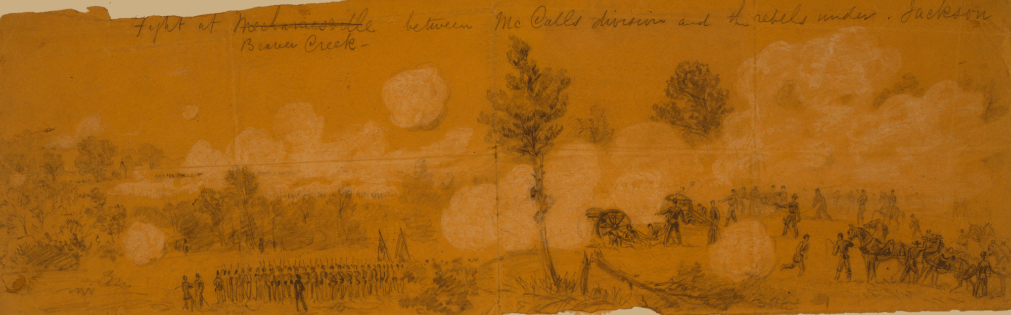 Published in: Harper's Weekly, July 26, 1862, p. 470 as "The Army of the Potomac-The Battle of Beaver Creek, June 26, 1862.